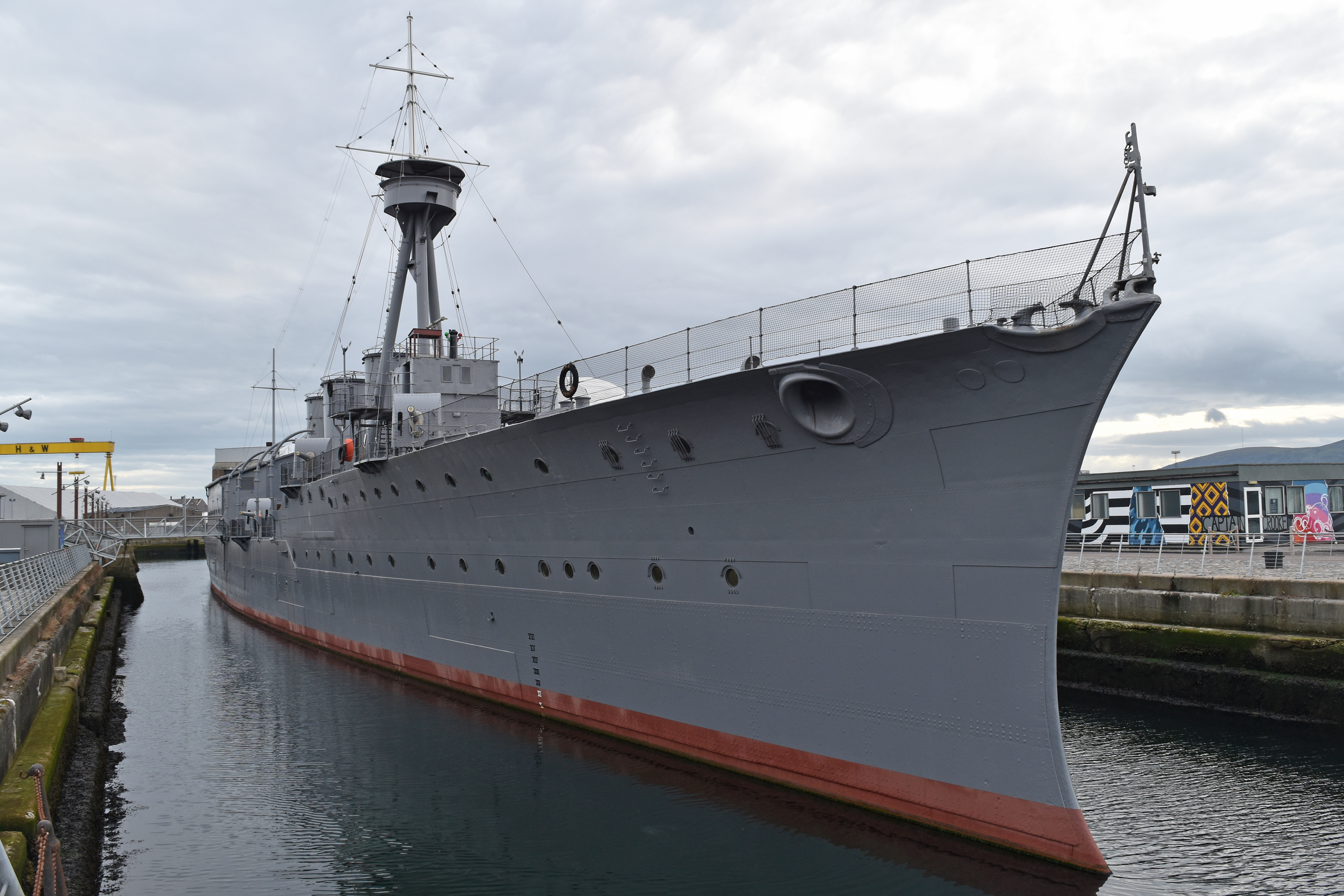 One of only three surviving British warships from WW1, HMS Caroline is also the only floating survivor of the 1916 Battle of Jutland. She also served as an administrative centre in Belfast during WW2. She is now preserved as part of the National Museum of the Royal Navy. Titanic Quarter, Belfast, Northern Island, UK. 13th September 2018 Posted 11th November 2018. We will remember them.